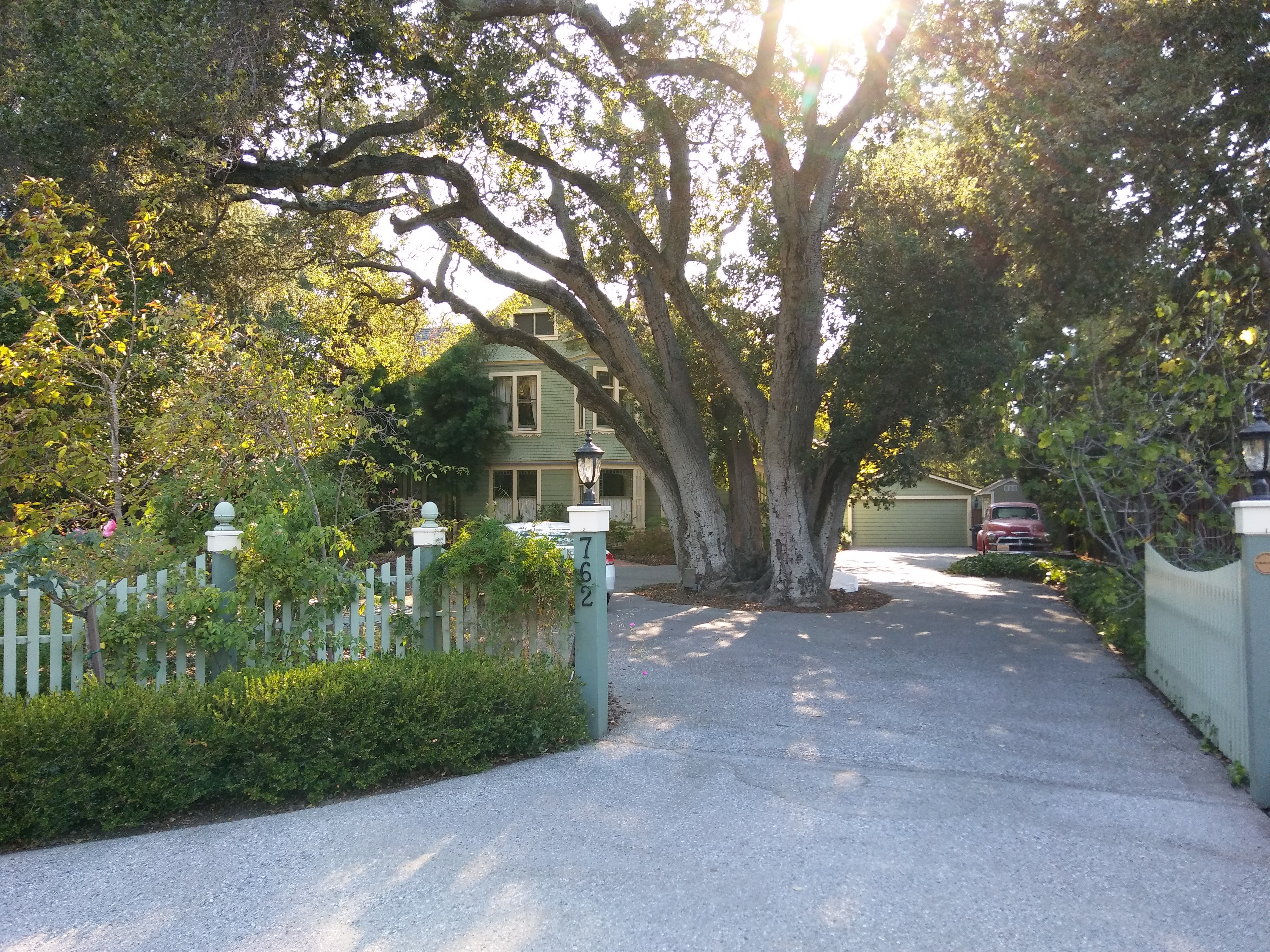 The farmhouse at 762 Edgewood Lane